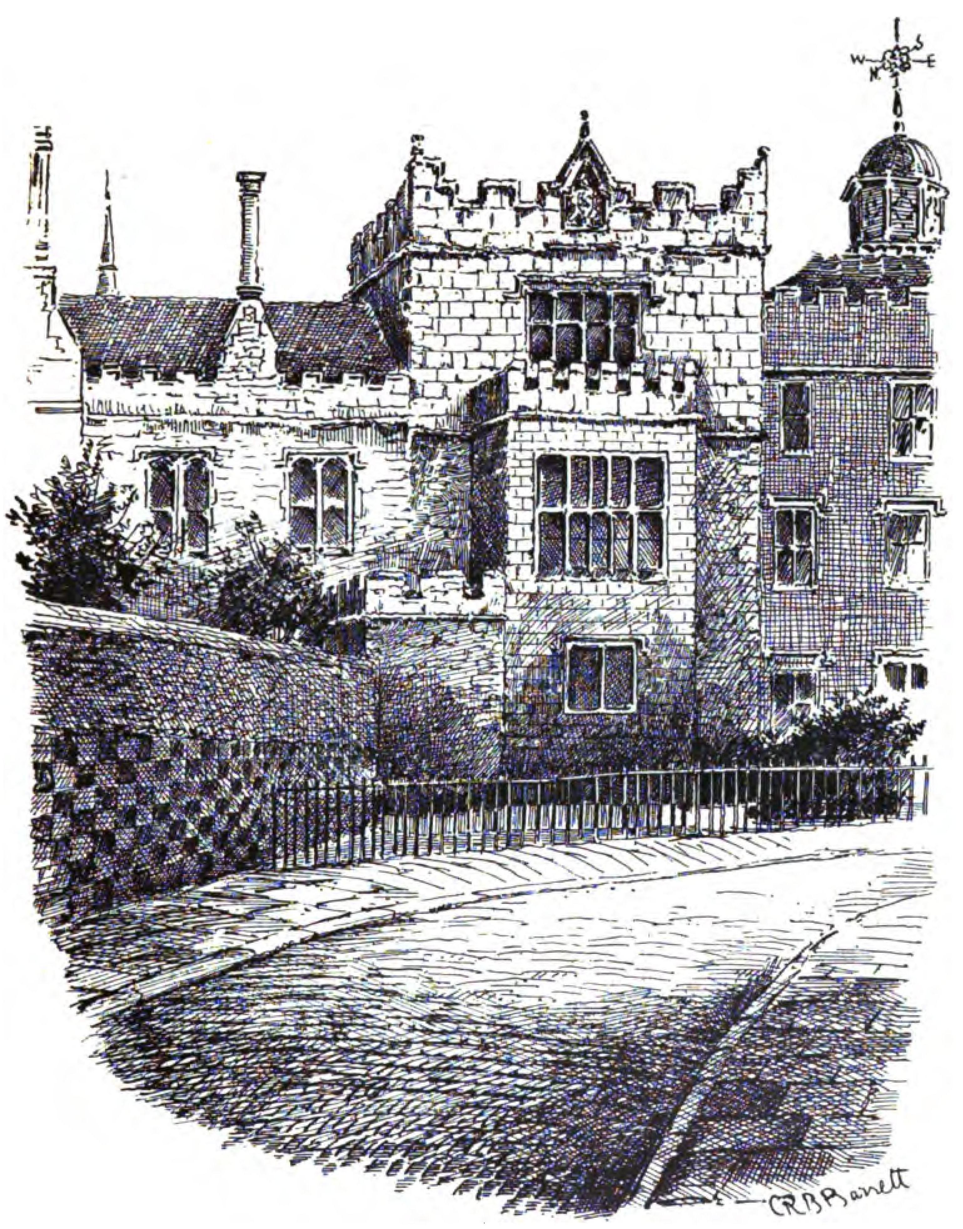 The Master's Lodge of the London Charterhouse. Pen and ink drawing by Charles Raymond Booth Barrett. "Both the exterior and interior of the Master's Lodge are of interest. Without, the weather-beaten stonework of the gable forms a picturesque view. Within, some of the rooms are noble, and rejoice in notable fireplaces. The 'long gallery,' though curtailed, is yet nearly fifty feet in extent."